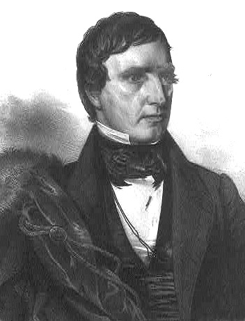 Engraving of then–U.S. Senator William R. King (1786–1853), who died several weeks after becoming vice president of the United States.